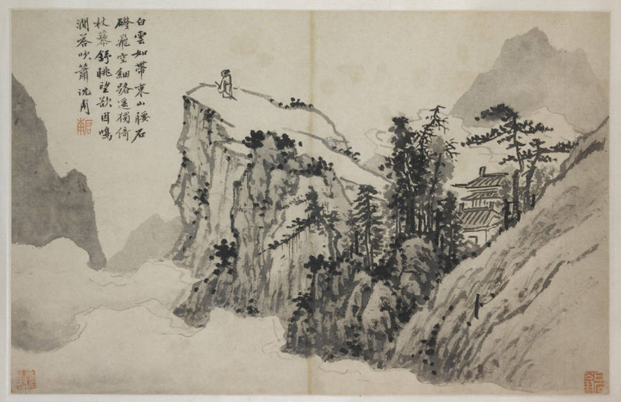 Poet on a Mountaintop Shen Zhou (沈周, 1427-1509), Ming Dynasty (1368-1644) Album leaf, ink on paper, 38.7 x 60.3 cm, The Nelson-Atkins Museum of Art, Kansas City, Missouri